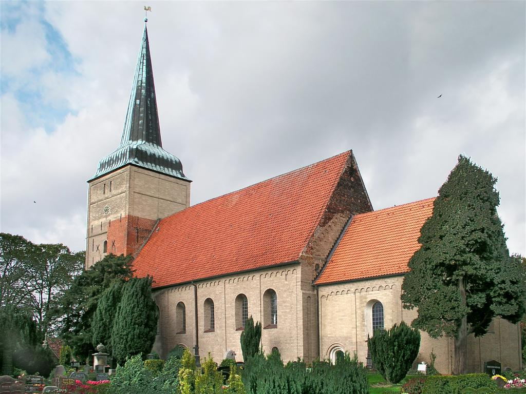 Wremen, Lower Saxony, Germany: Church Willehadi , photo 2006